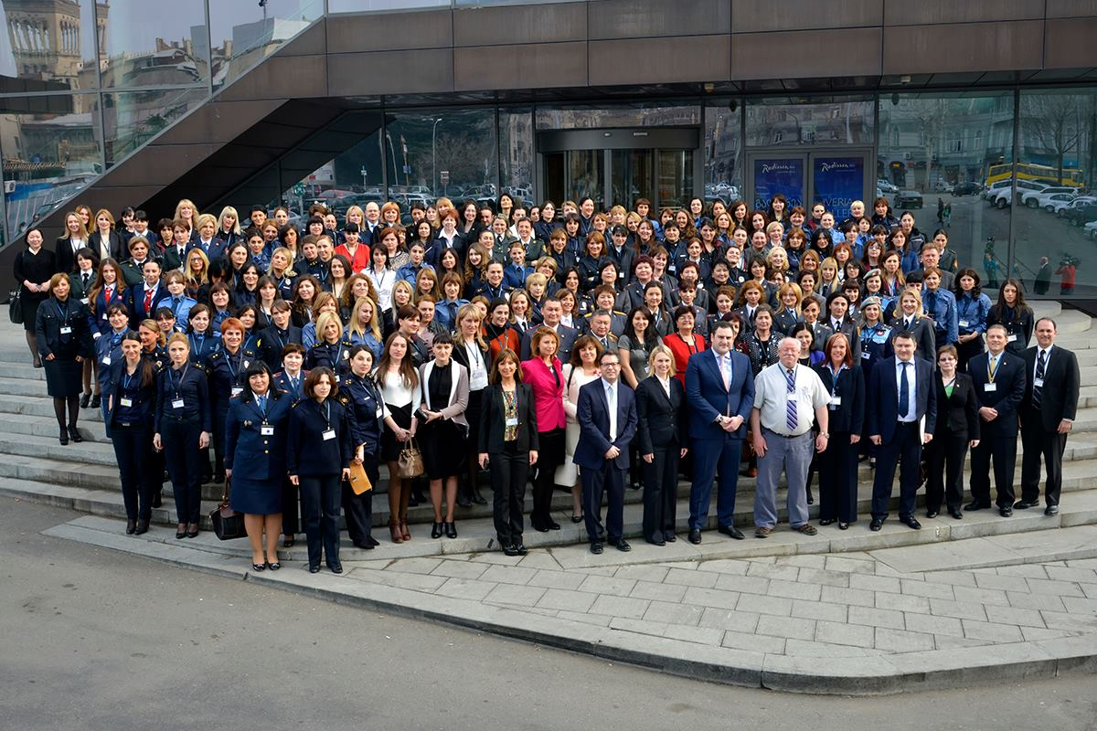 3rd Annual Women in Policing Conference in Tbilisi, Georgia. March 4, 2014